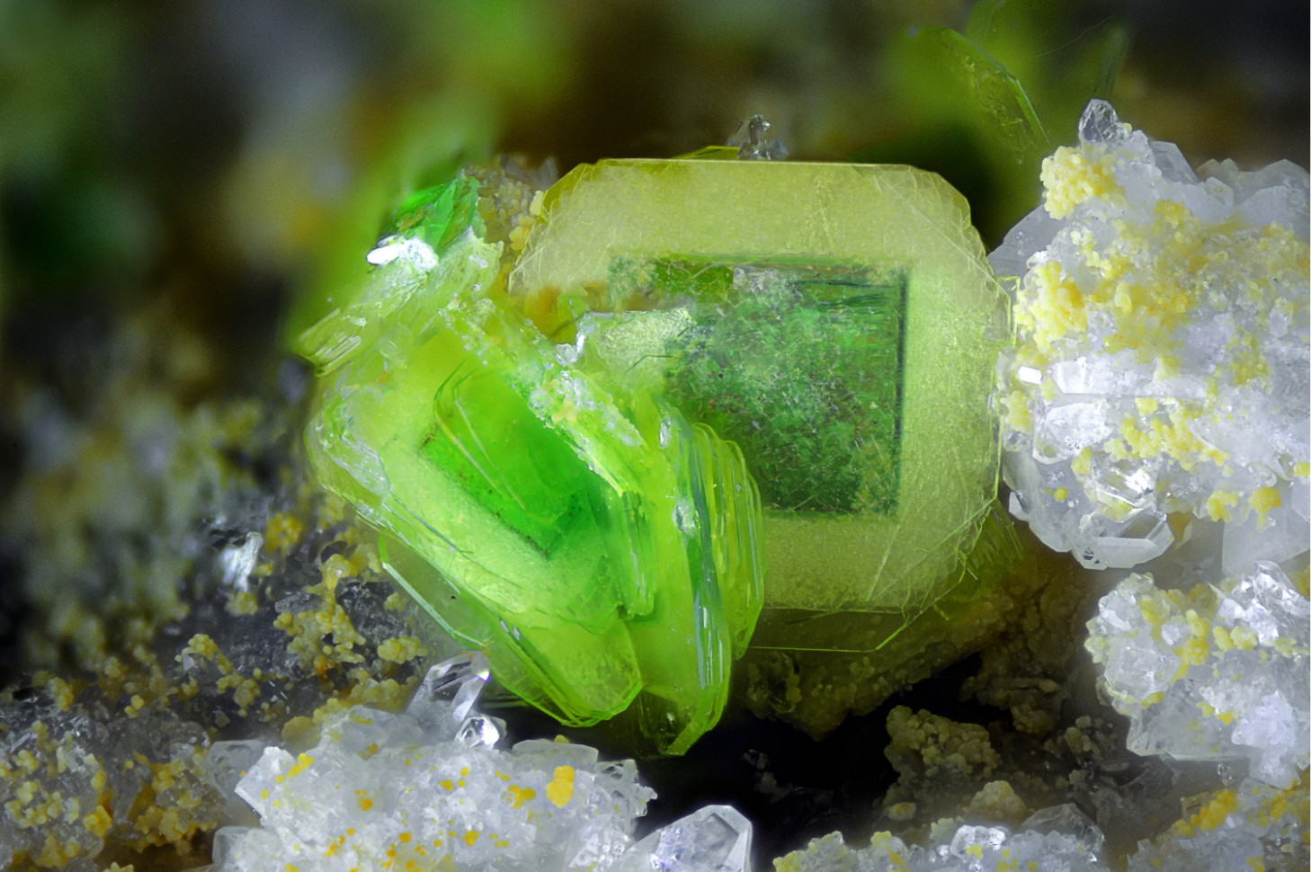 Uranospinite, Zeunerite Field of view: 2,4 mm Locality: Montoso Quarries, Bagnolo Piemonte, Cuneo Province, Piedmont, Italy Original description: "LCD screen": Lemon-yellow uranospinite with green epitaxial growth of zeunerite - Rocche Grana quarry, Montoso. Collection and photo: Giuseppe Finello.